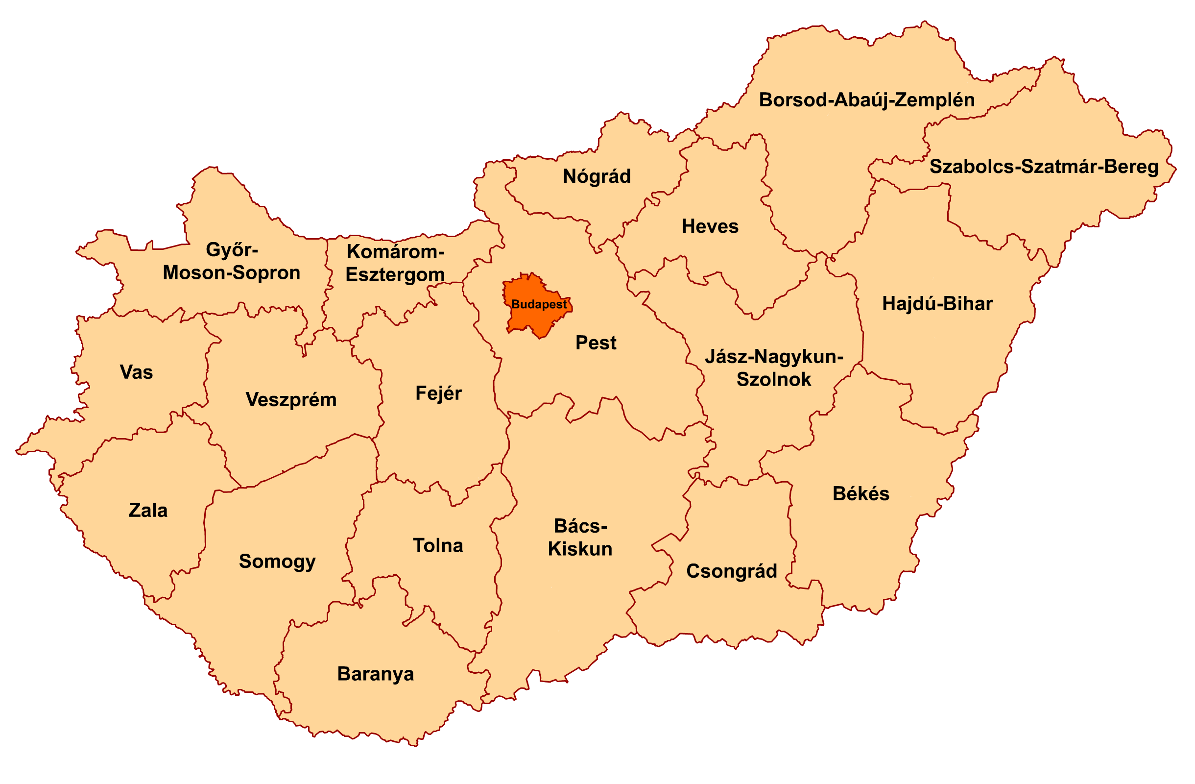 Counties of Hungary (2006)